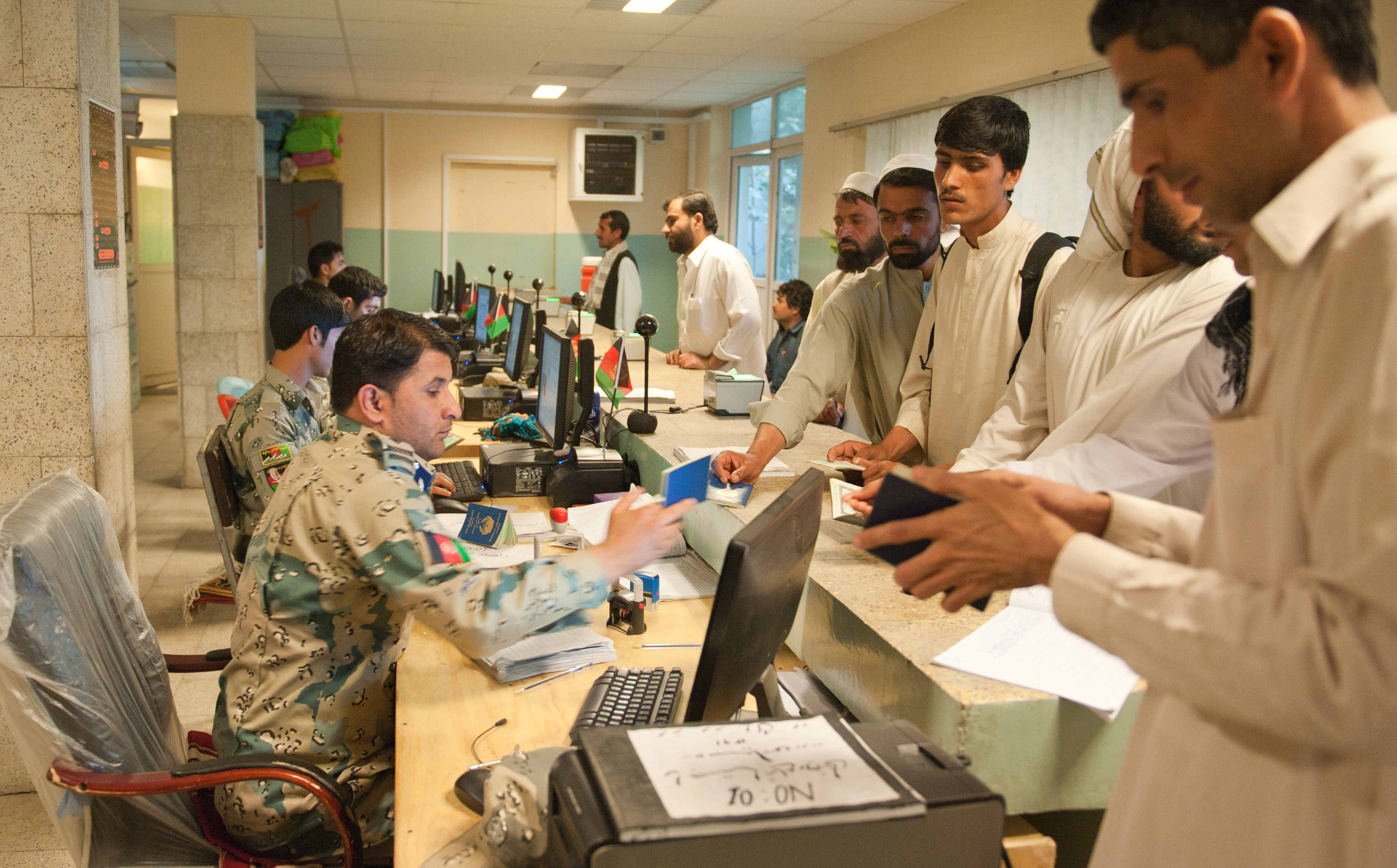 Afghan customs officials check travelers' passports at Torkham Gate in Nangarhar province, Afghanistan, April 24, 2013. The customs and border patrol station on the Afghan side of the Khyber Pass regulates traffic flow between Pakistan and Afghanistan. (U.S. Army photo by Spc. Margaret Taylor/Released) (Photo ID: 915735)